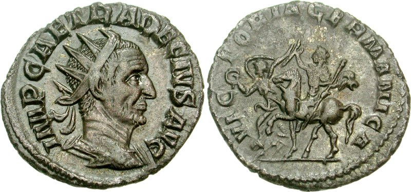 Trajan Decius. AD 249-251. AR Antoninianus (3.33 g, 12h). Rome mint. Special emission, mid AD 251. IMP CAE TRA DECIVS AVG, radiate, draped, and cuirassed bust right, seen from behind VIC TORIA GERMANICA, Decius on horseback riding left, raising right hand and holding scepter in left; to left, Victory advancing left, holding wreath in right hand and palm in left. RIC IV 43 corr. (obv. legend) and pl. 10, 20 (this coin illustrated); RSC 122.